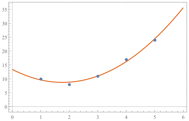 Least square example, polynom